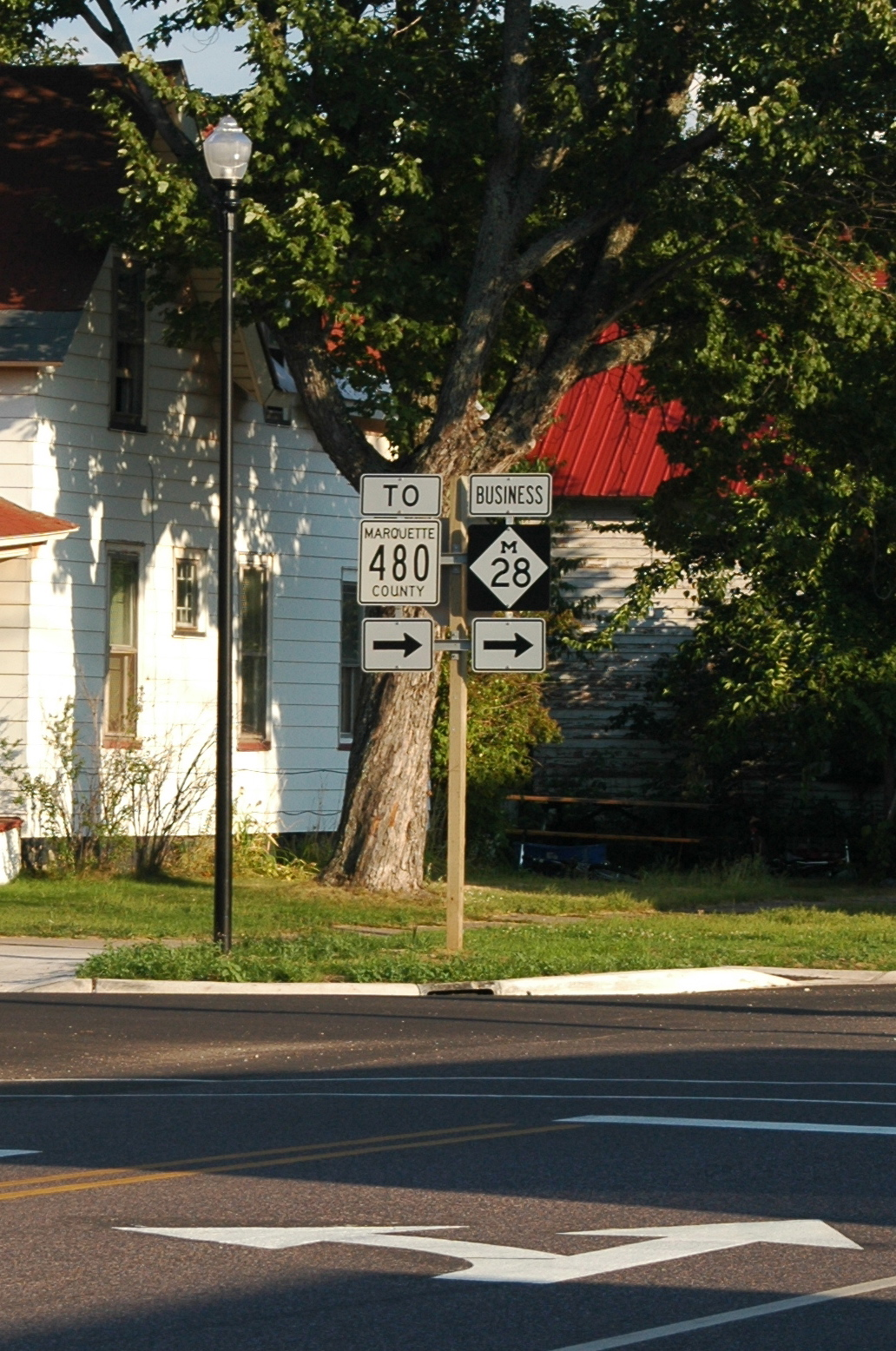 A rare sign assembly for Michigan: a county road shield used on a state highway.